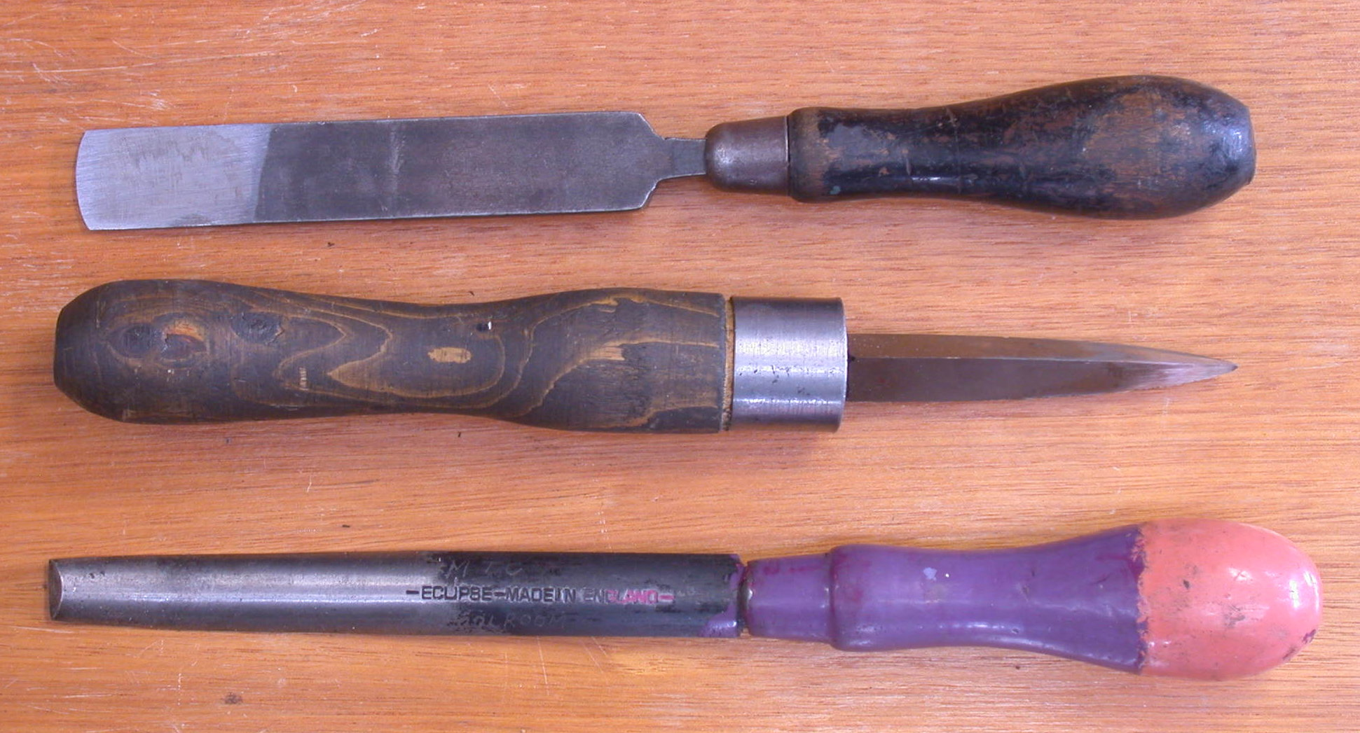 Photograph taken by Glenn McKechnie on the 24th March 2005.